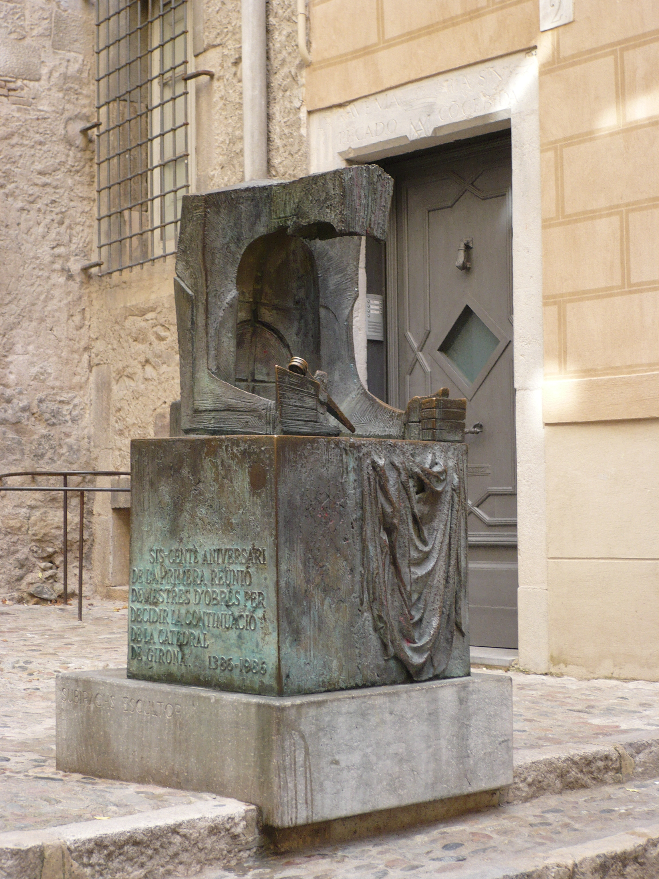 Artwork of Josep Maria Subirachs (pujada de la catedral, Girona, Catalonia).